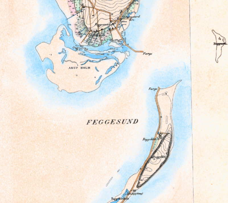 Feggesund ferry in 19th Century